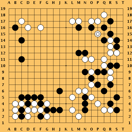 Go game from 1986 Meijin tournament: Kobayashi Koichi 9d (White) vs. Kato Masao 9d (Black). Screenshot from CGoban, edited with Gimp. Author: Jan B